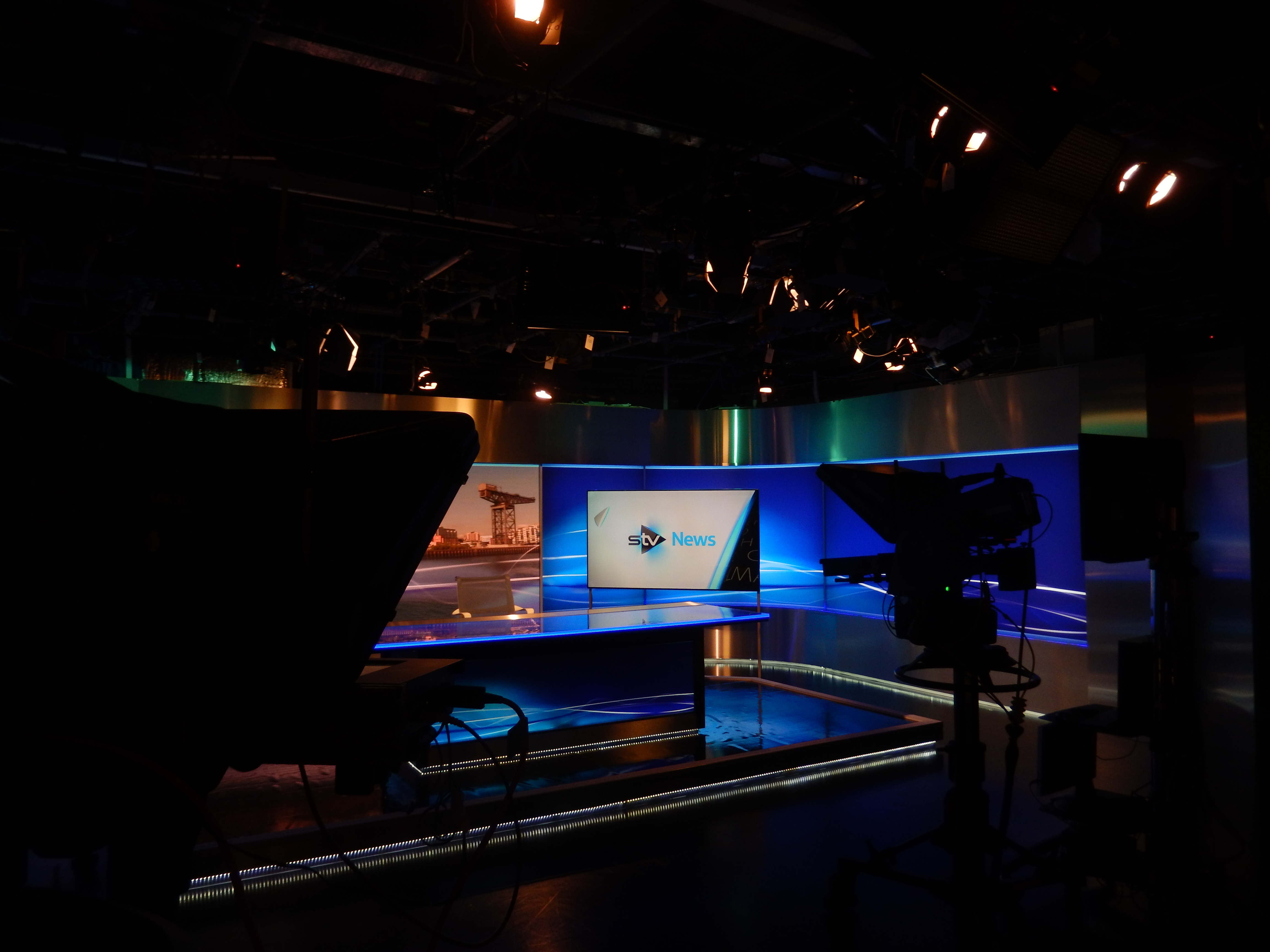 STV News Studio in STV Pacific Quay Studios, Glasgow. The studio is shared with news and weather. File:Scotland Tonight Studio in STV Pacific Quay.JPG was taken from nearly the same location, facing the other way. Photo taken on a Doors Open Day Tour of the studios.